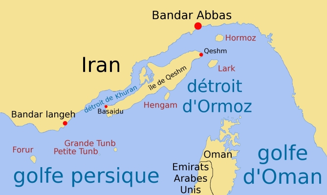 Map of the Qeshm Island area, in french